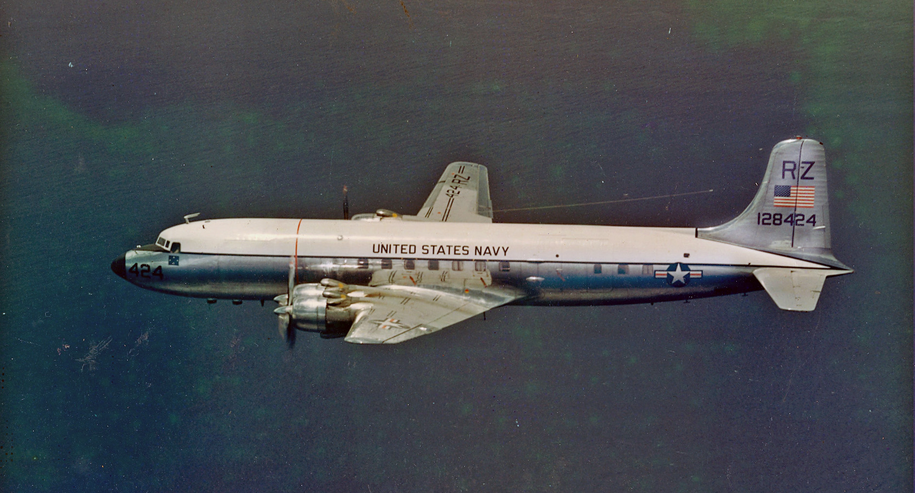 A U.S. Navy Douglas VC-118B Liftmaster (BuNo 128424) in flight. Official description: “The VC-118B currently on display at the museum pictured flying near Honolulu during its service in Transport Squadron (VR) 21. The museum's VC-118B (Bureau Number 128424) entered service as a R6D-1 on 6 September 1951, the first of this version of the Liftmaster that was delivered to the U.S. Navy. To this end, when it took to the air for its flight to its first squadron, Transport Squadron (VR) 5 at Naval Air Station (NAS) Moffett Field, California, the airplane carried Donald Douglas, Sr., the founder of Douglas Aircraft Company. In VR-5, Naval Air Reserve pilots with civilian airline experience in the type of aircraft, flew it while serving as the initial training cadre for the squadron. During 1954-1955, the airplane was converted to a VIP transport and subsequently joined VR-21 based at NAS Barbers Point, Hawaii, For the next 29 years, which encompassed the entire Vietnam War, the airplane served as a flag transport for the Commander in Chief Pacific and Commander in Chief Pacific Fleet in VR-21. During this time its passengers including admirals, ambassadors, and heads of state. Flight delivered to NAS Pensacola, Florida, in 1983, Bureau Number 128424 was accessioned into the museum collection in 1984.”